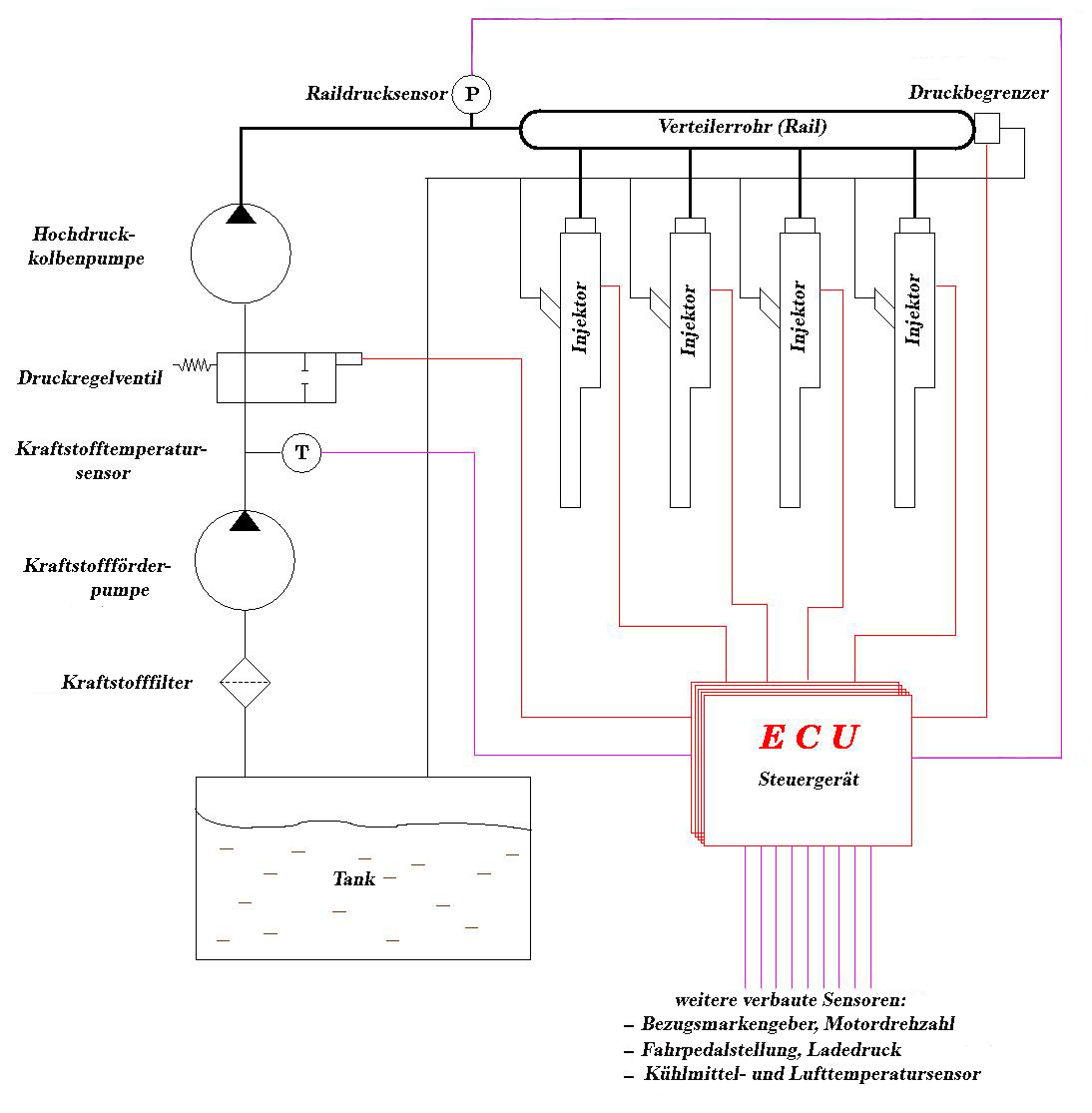 System configuration Common Rail fuel injection system for diesel engines